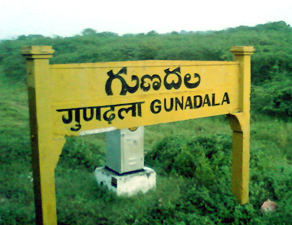 Gunadala railway station, Krishna District